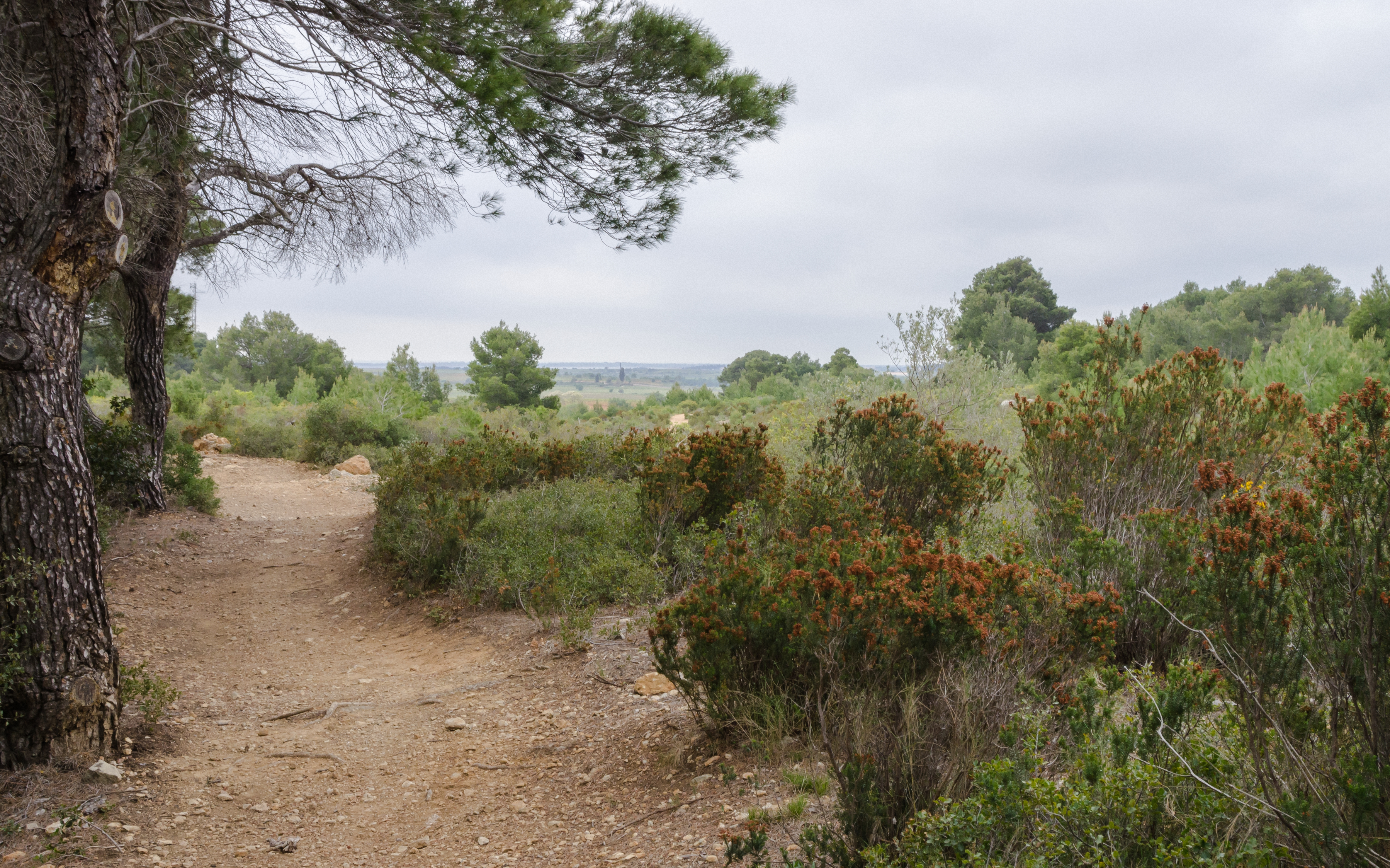 Trail in the commune of Pinet, Hérault, France. Aspect ratio 16:10.